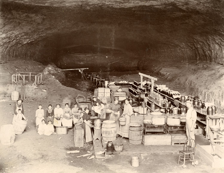 Cannery operation in the Ruskin Cave, Ruskin Cooperative Association Papers, 1896